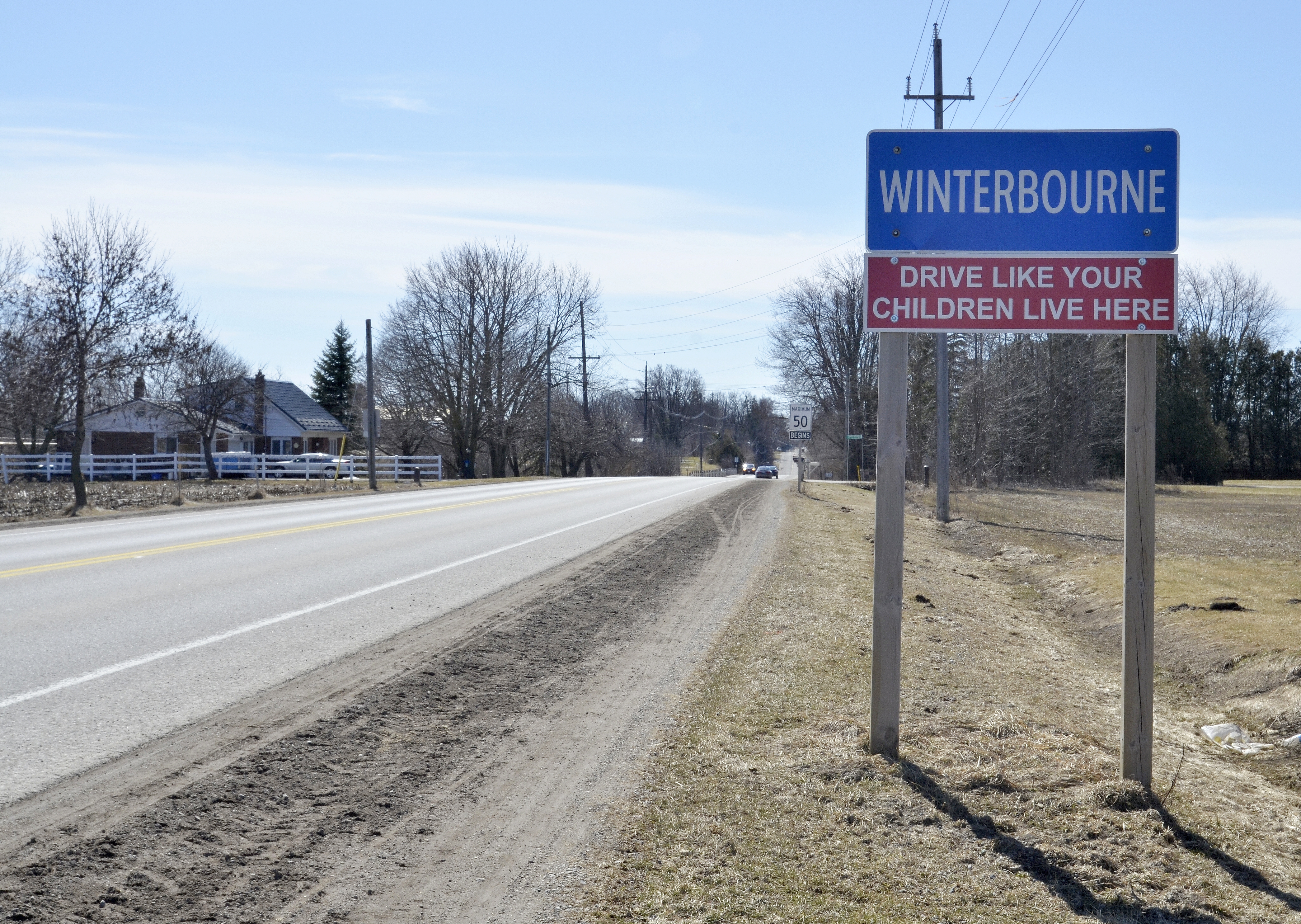 Welcome sign in Winterbourne, Ontario.